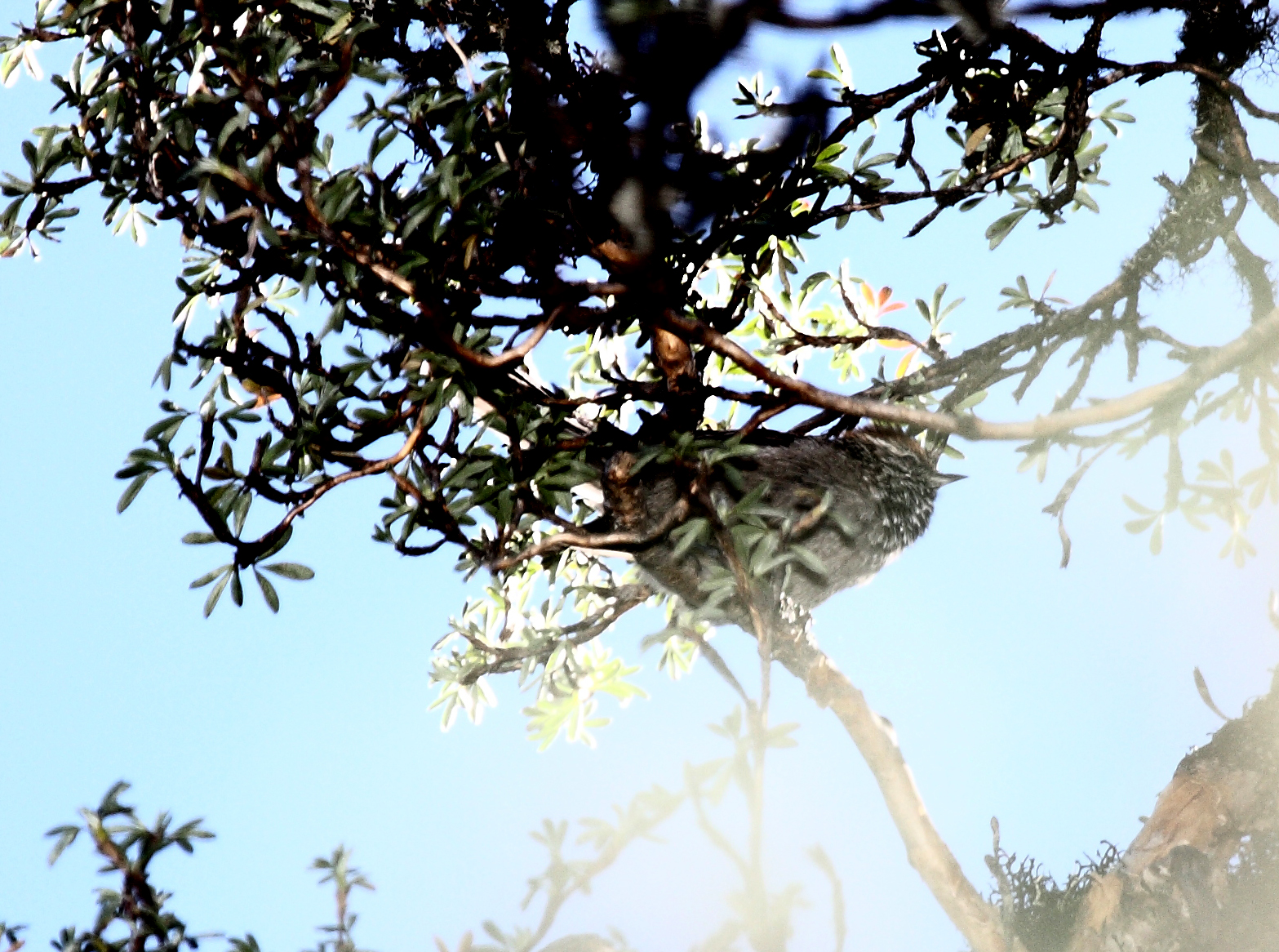 White-browed Tit-spintail Leptasthenura xenothorax, Peru.